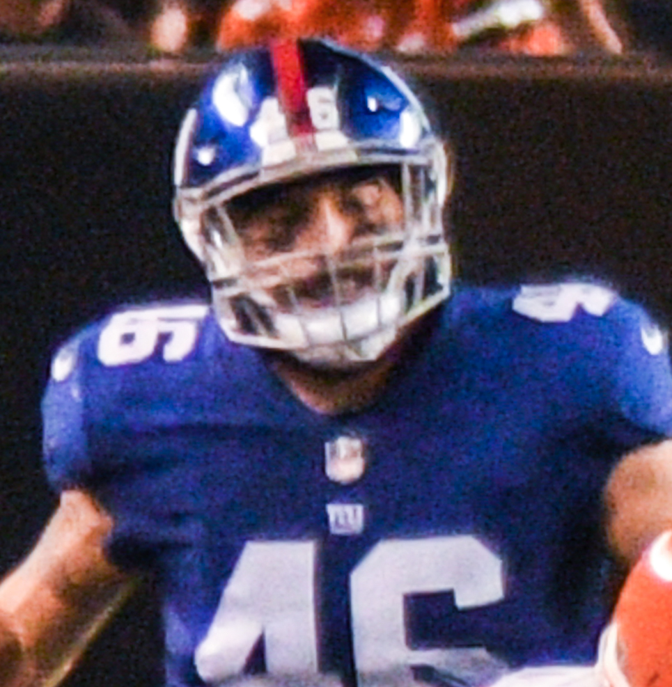 Cleveland Browns vs. New York Giants